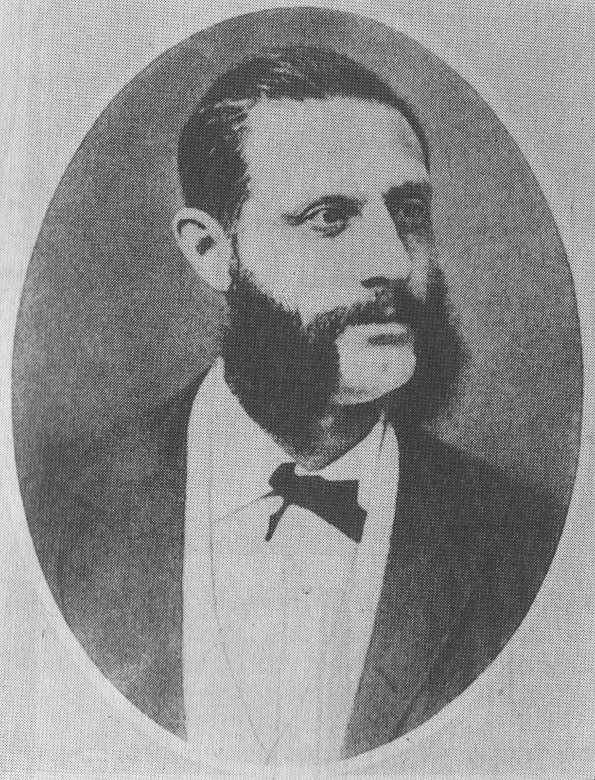 Sanford Christie Barnum, the inventor of dental rubber dam